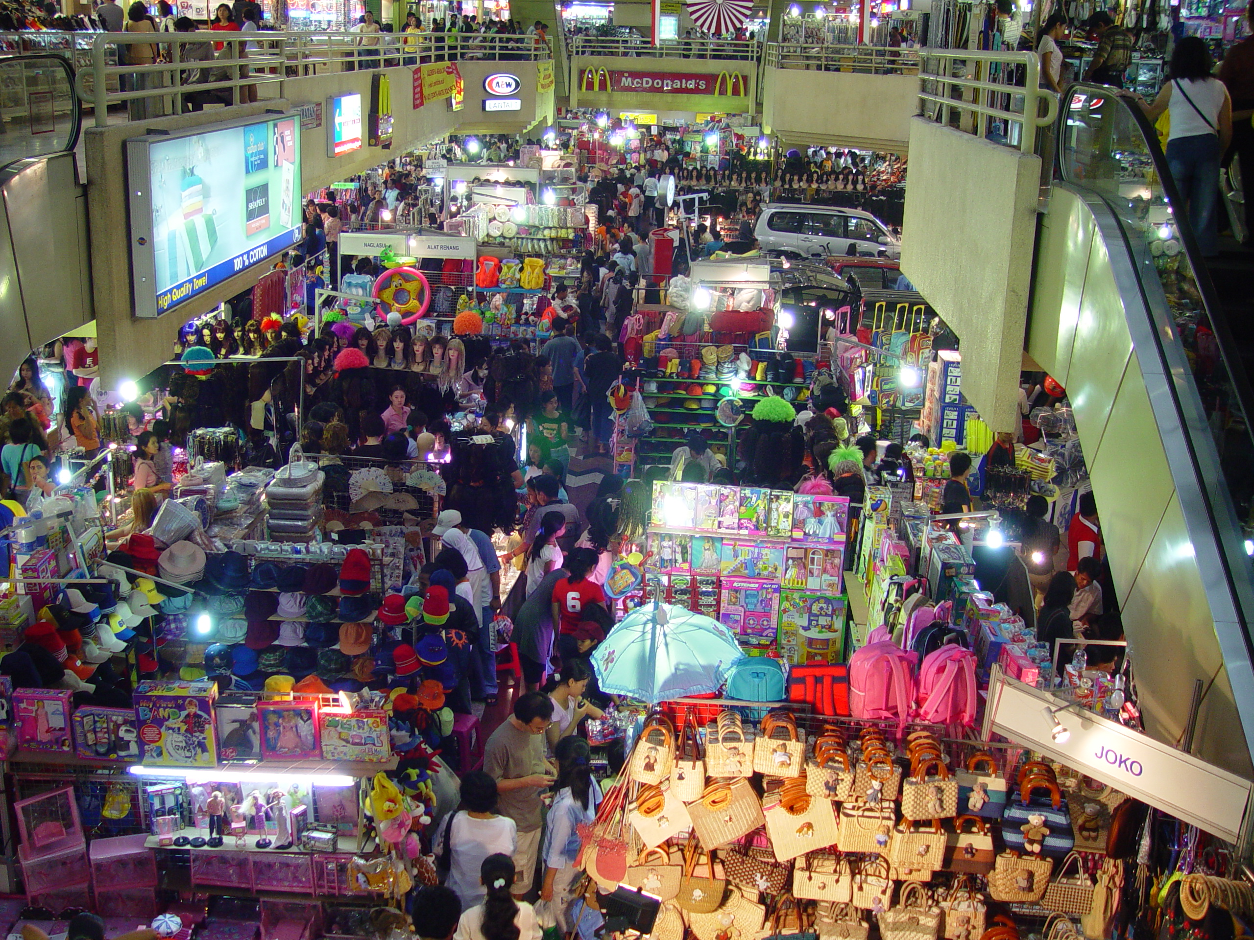 The mangga dua mall in Jakarta, Indonesia.